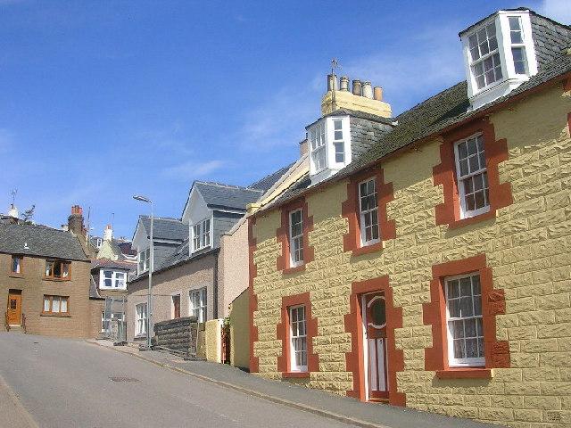 Colourful Cottage at Gourdon.